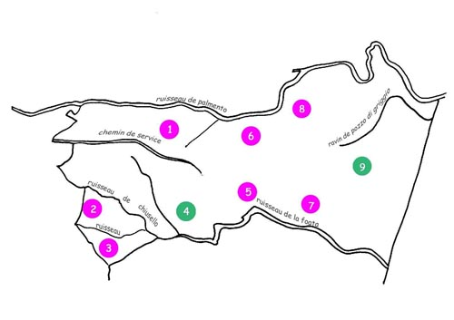 toponymie casevecchie